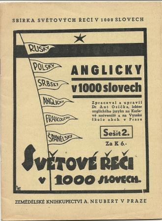 English in 1000 words, Dr. Antonin Osicka, a collection of brochures from 1938-1939 and 1945.